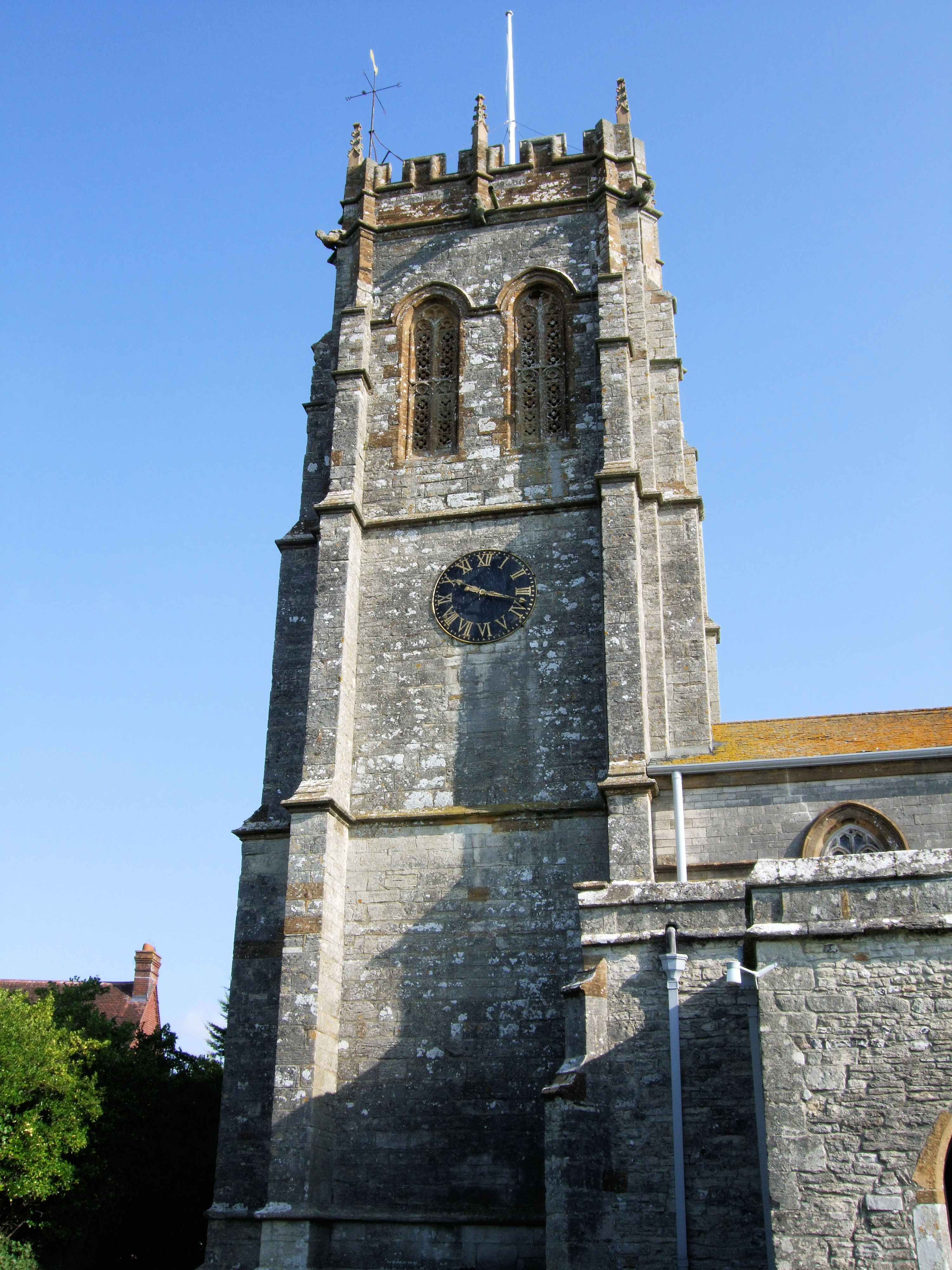 The church of St. George stands at the top of a small hill overlooking the River Frome on one side and Fordington Green on the other. the tower is fifthteenth century and is enbattled with pinnacles.